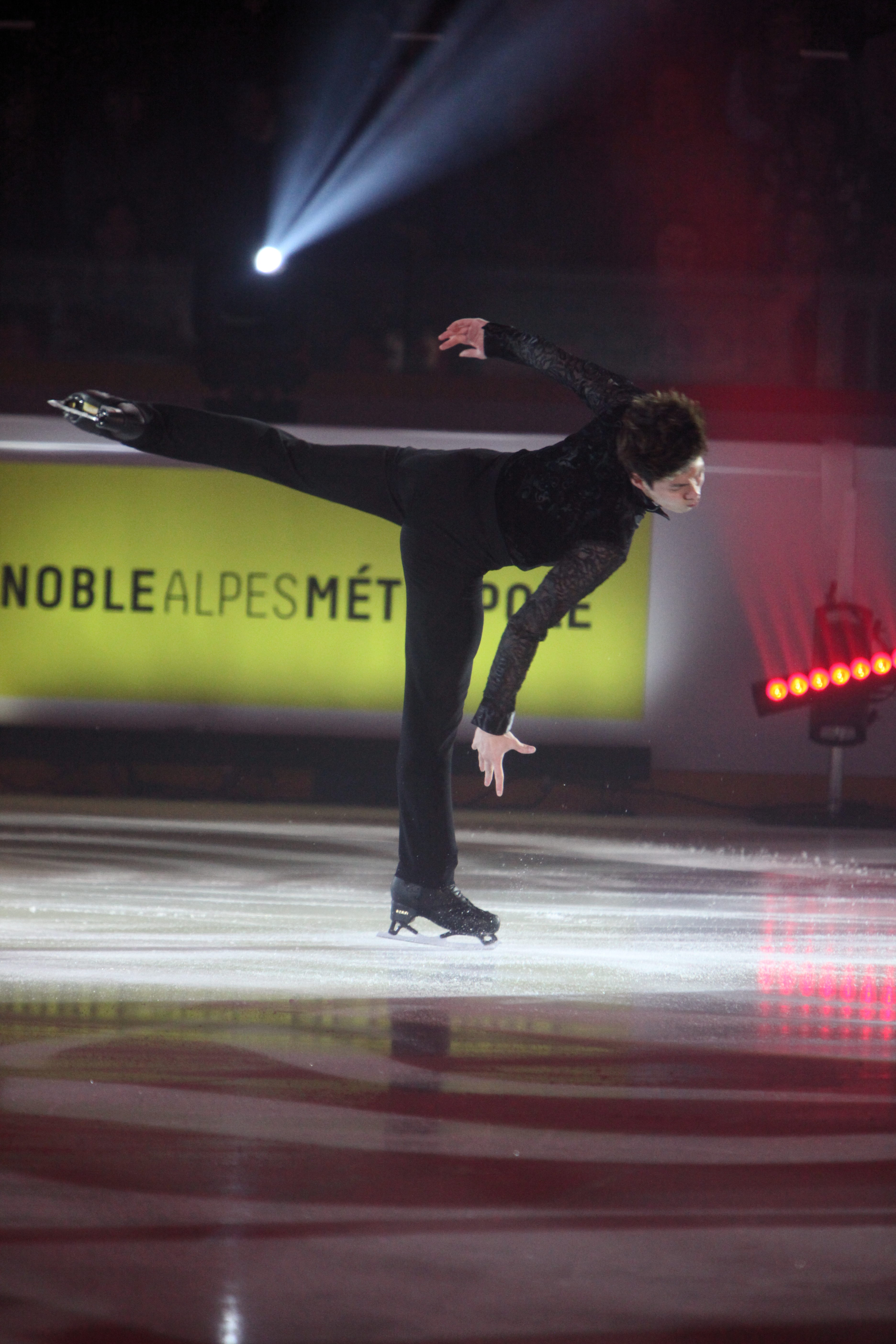 Keiji Tanaka during the gala at the Internationaux de France de Patinage 2018.